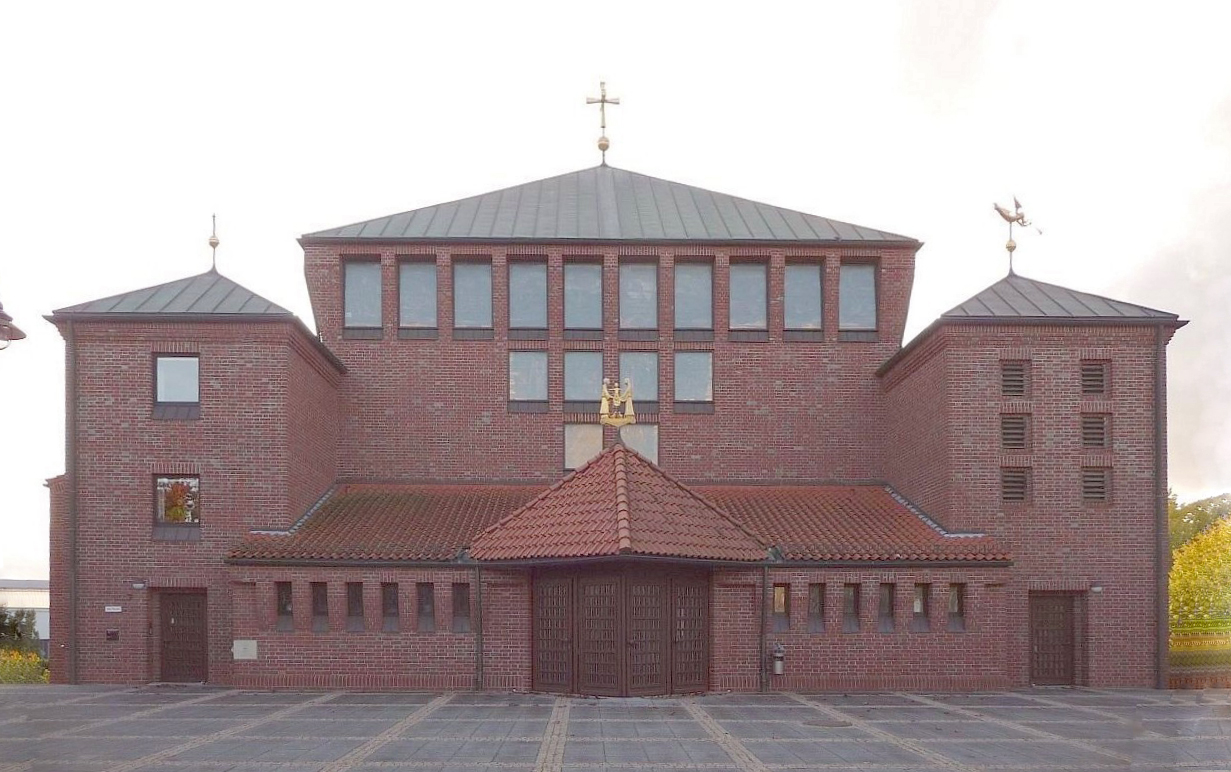 'Kirche zur heiligen Familie' in Bremen-Vegesack